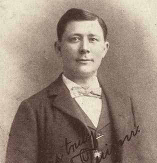 Publicity photo of pioneer recording artists Dan W. Quinn ca. 1896.